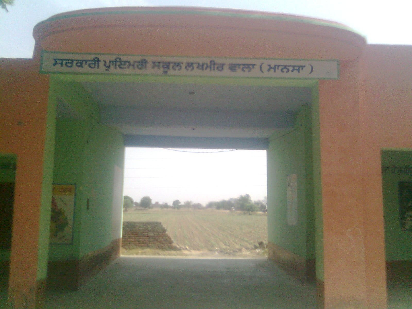 A view of the government primary school of Lakhmir Wala in Mansa district of Punjab.